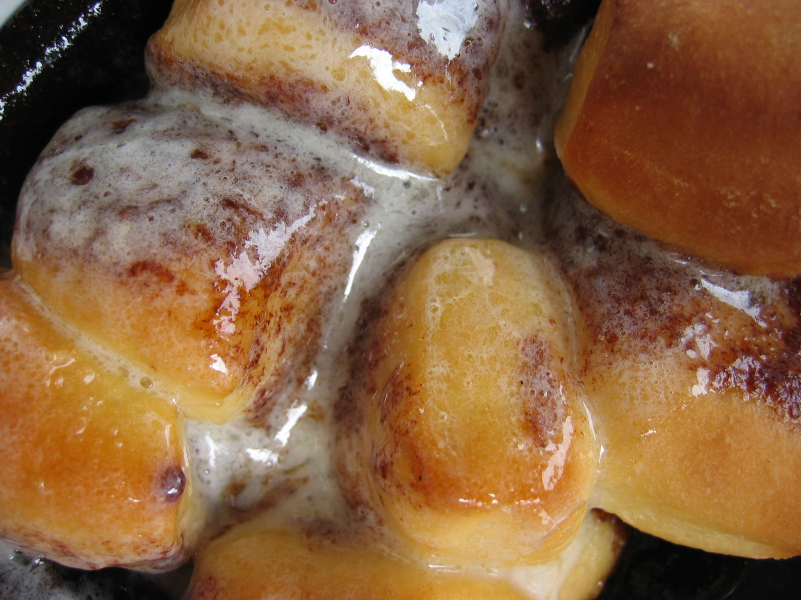 photo taken on 4 April.